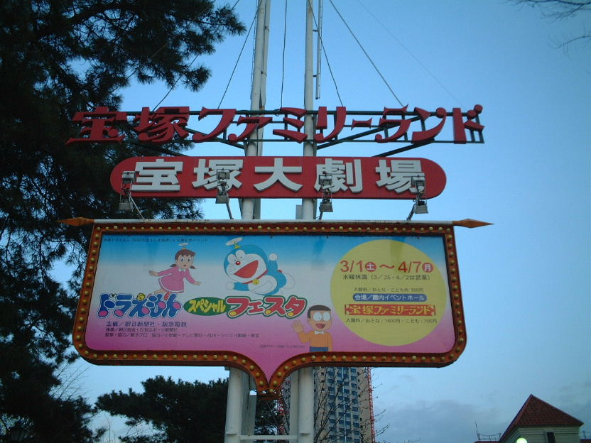 Takarazuka Family Land front signboard.